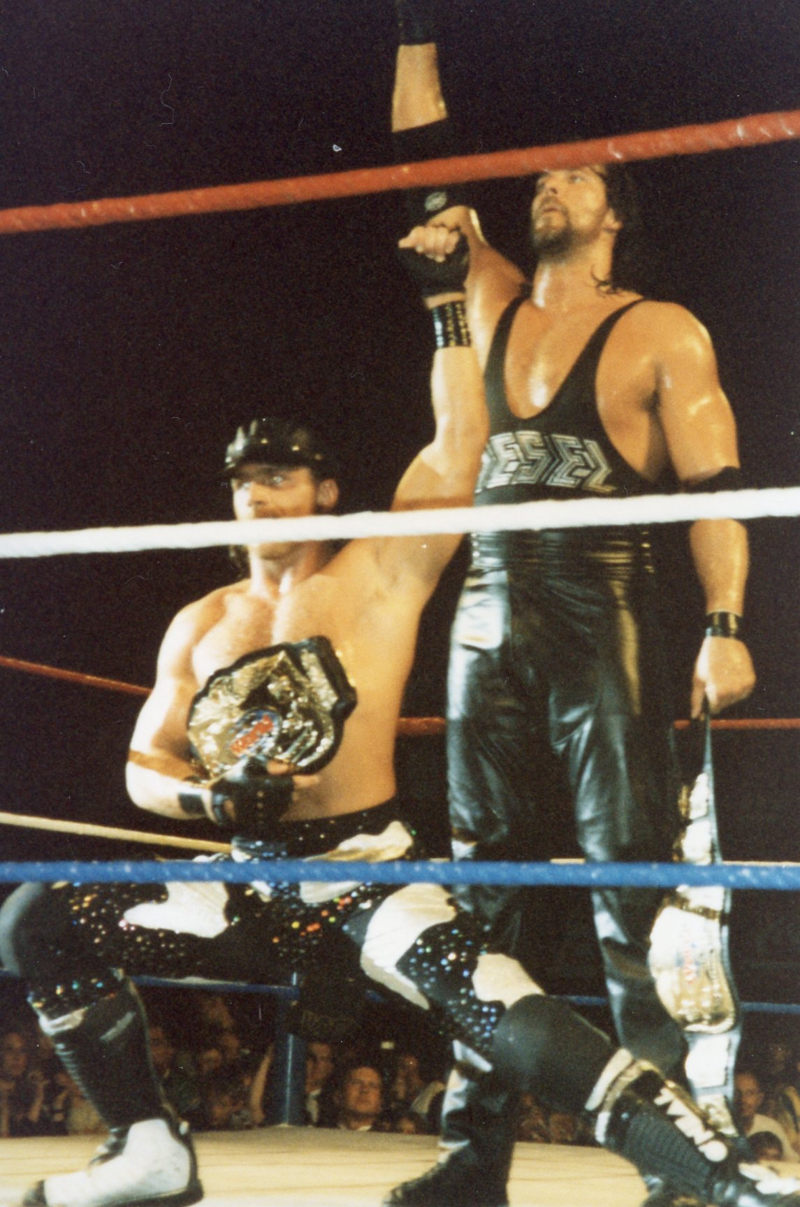 Shawn Michaels and Diesel pose before defending their WWF World Tag Team Championship belts at the Wembley Arena in London.